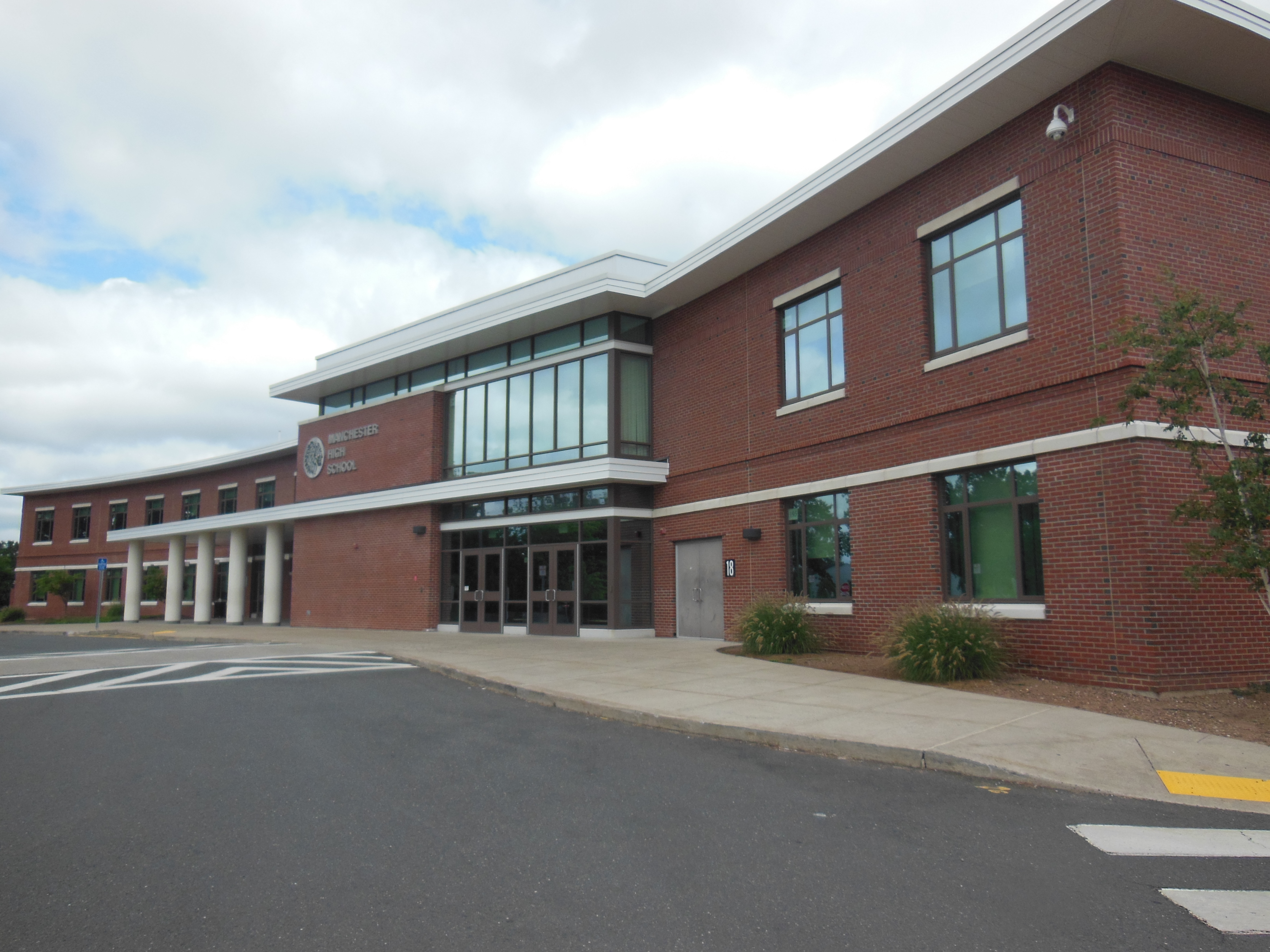 Manchester High School freshman wing from the side.